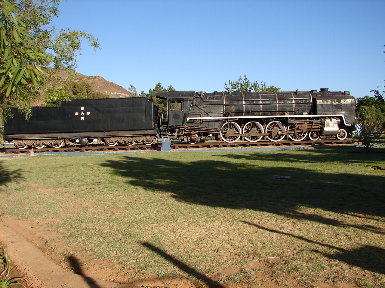 SAR Class 23 2556 (4-8-2) Builder's Number: Berliner 10742 Location: Touws River, Western Cape